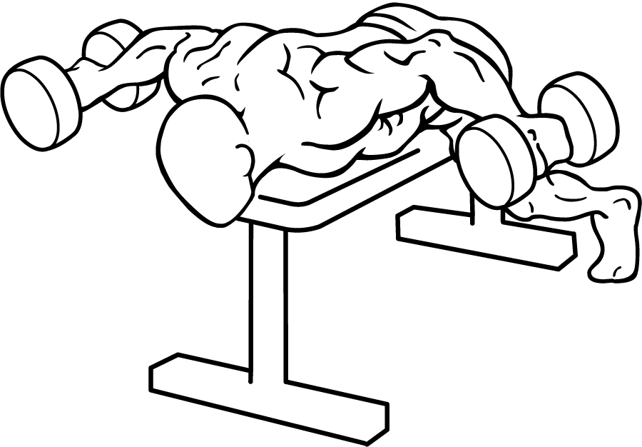 an exercise of shoulder